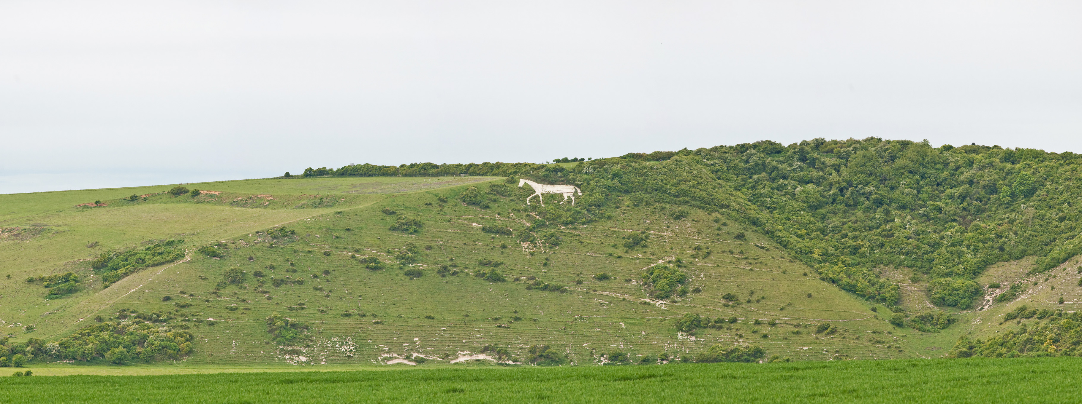 The chalk horse west of Littlington in the Cuckmere Valley, East Sussex, England.